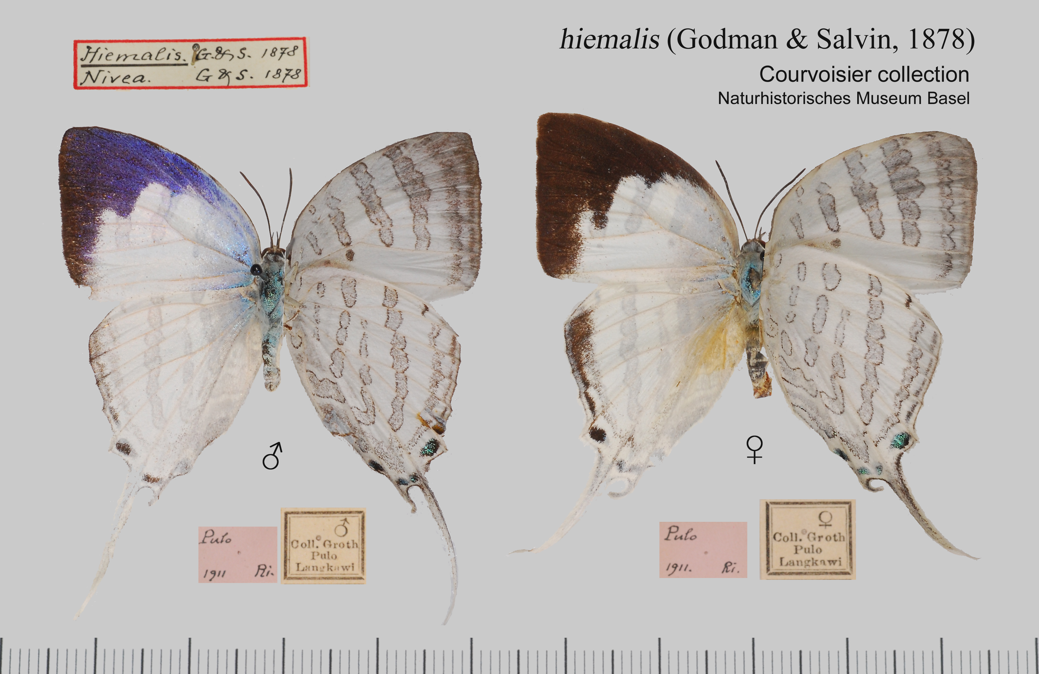 Neomyrina nivea hiemalis, male, female, Malaysia, Langkawi Is., Courvoisier collection NHM Basel, Alan Cassidy photo.